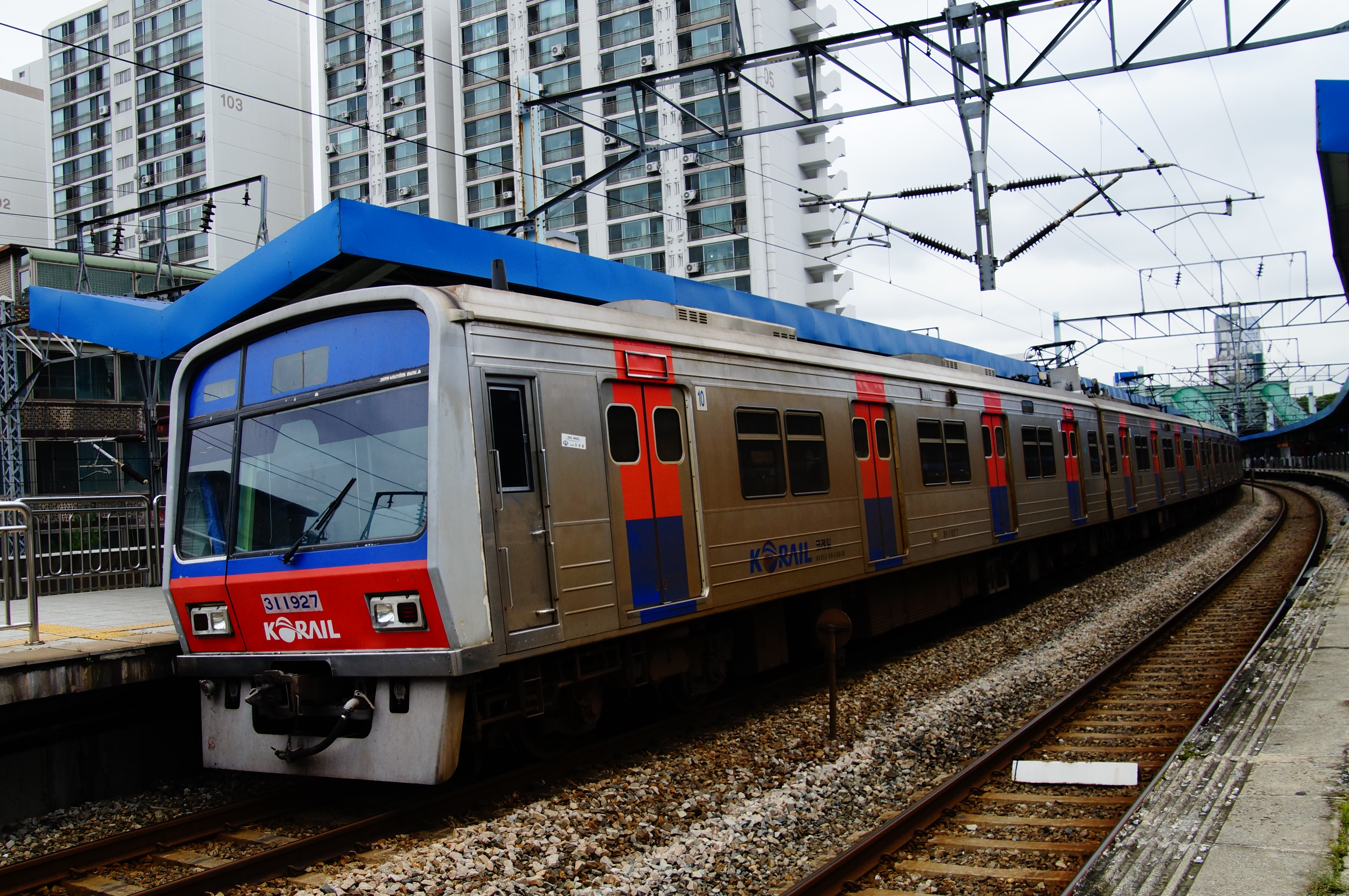 Korail Class 311000 (trainset 311x27) Line 1 Yongsan-Dongincheon express train at Singil.